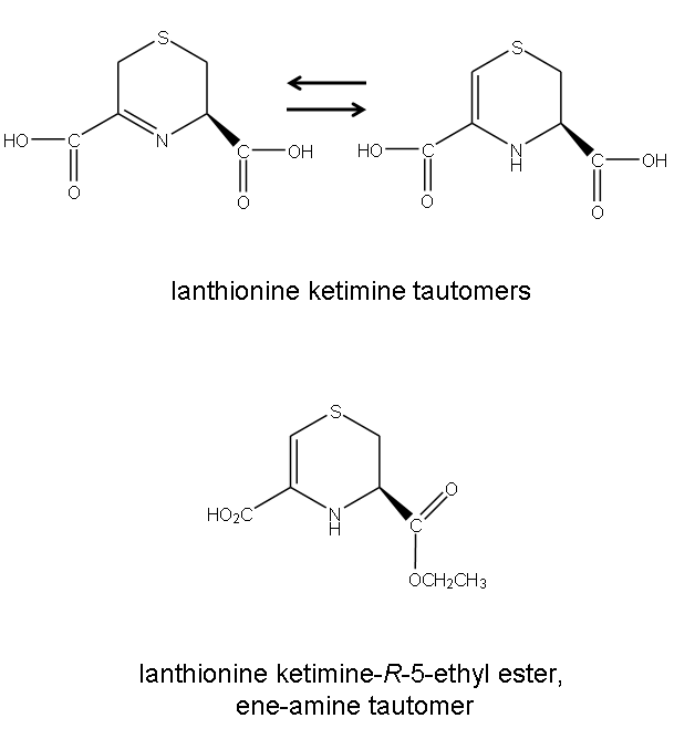 lanthionine ketimine tautomers and lanthionine ketimine-R-5-ethyl ester, ene-amine tautomer